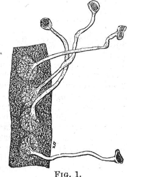 Pedunculated lateral line organ in Gastrostomus (=Eurypharynx)